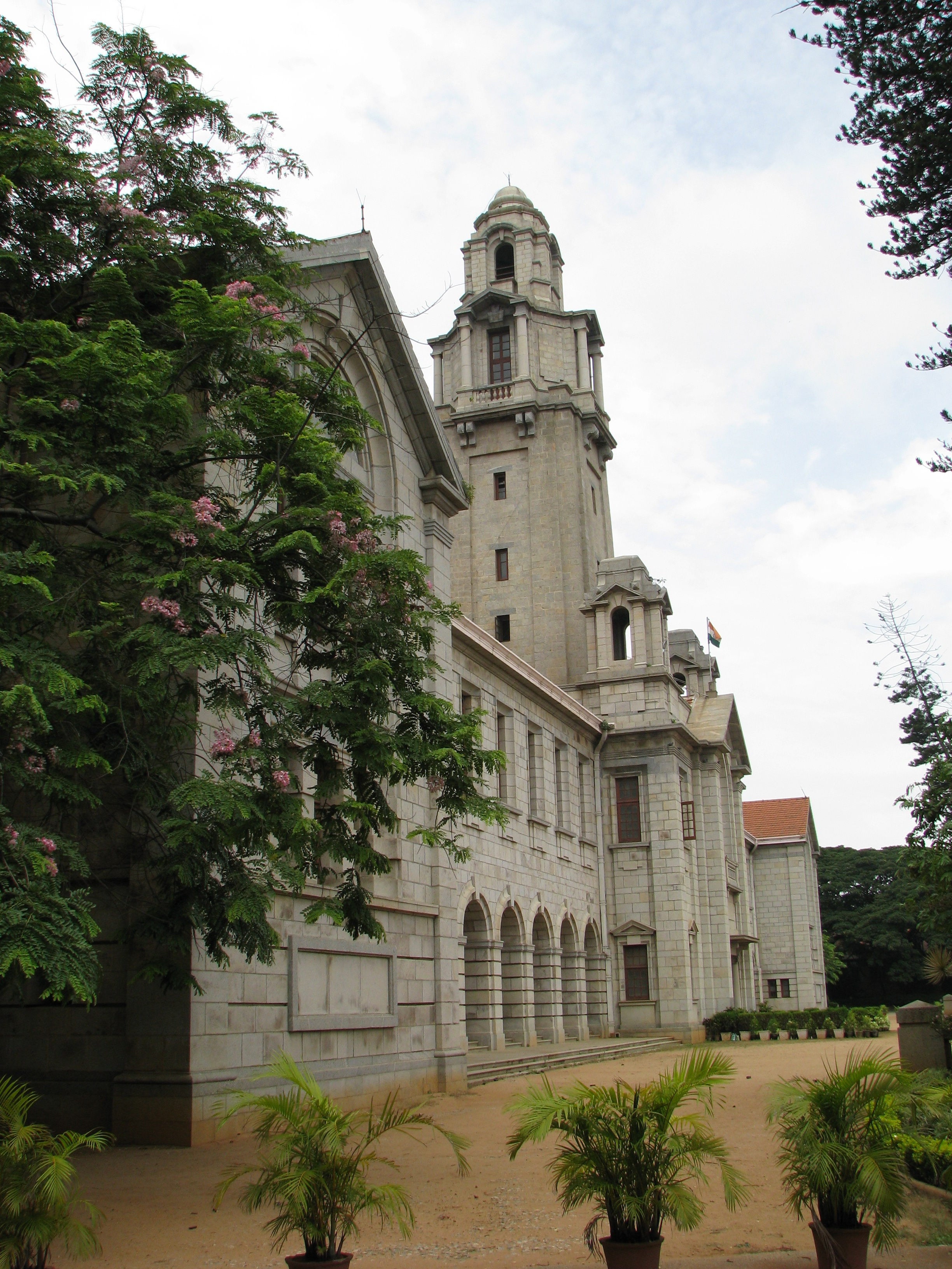 This is a shot taken from left side of the IISc main building.